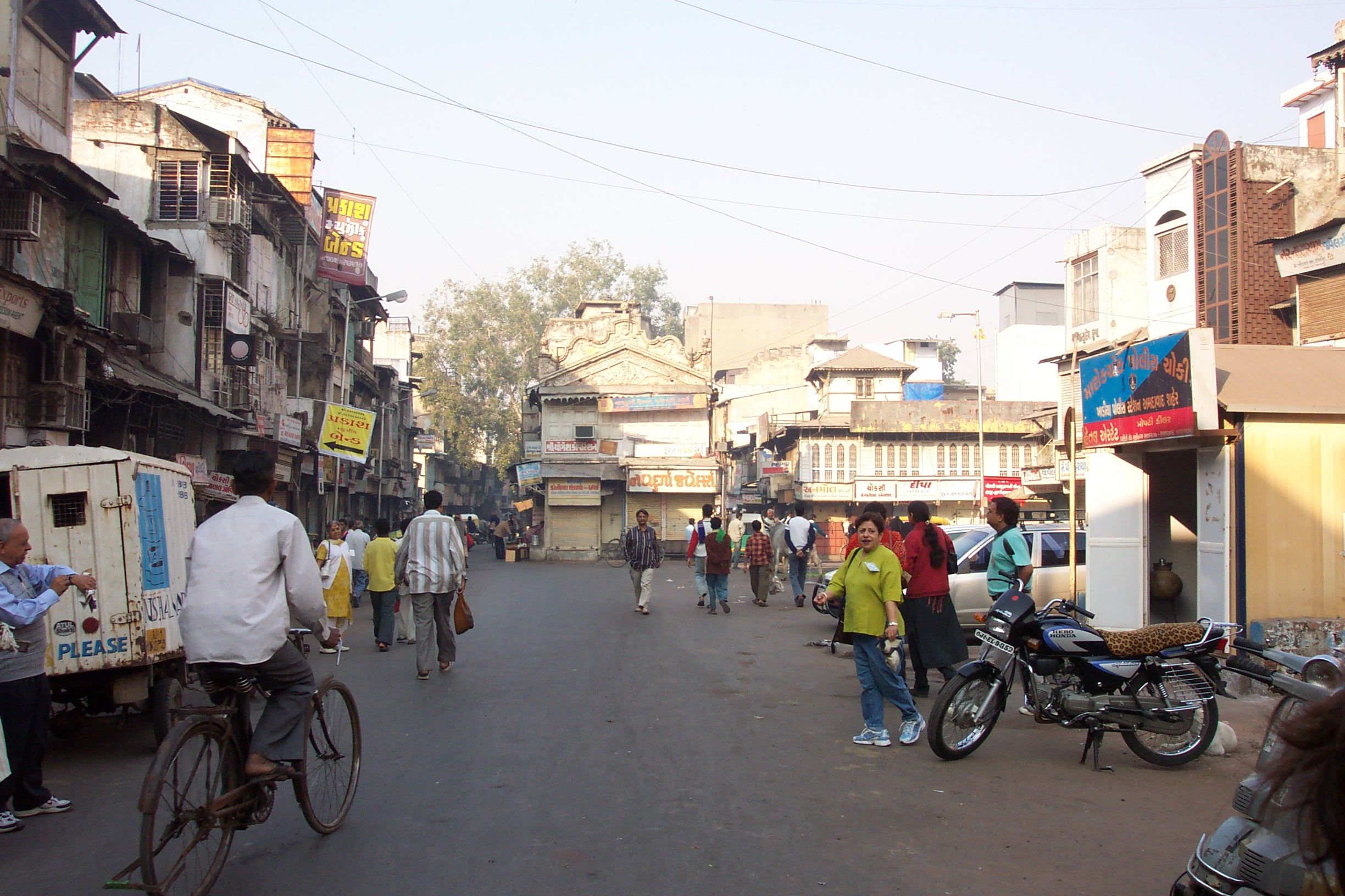 Photos of Ahmedabad's Walled City taken during the Heritage Walk conducted jointly by Ahmedabad Municipal Corporation and the CRUTA Foundation